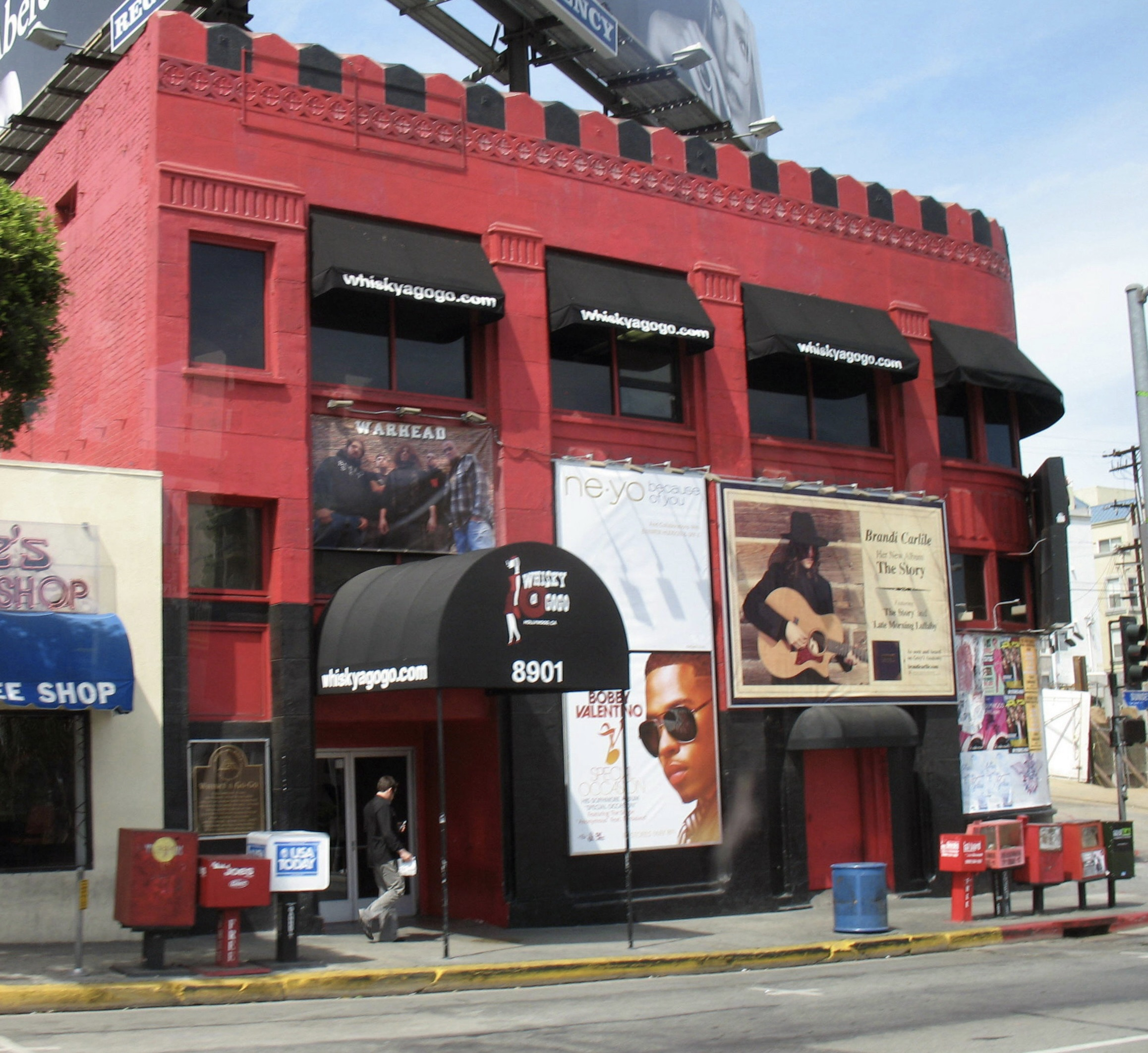 Whisky a Go Go, a famous club in West Hollywood